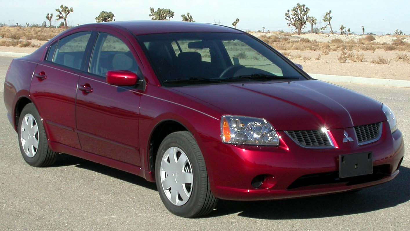 2004 Mitsubishi Galant photographed in USA.